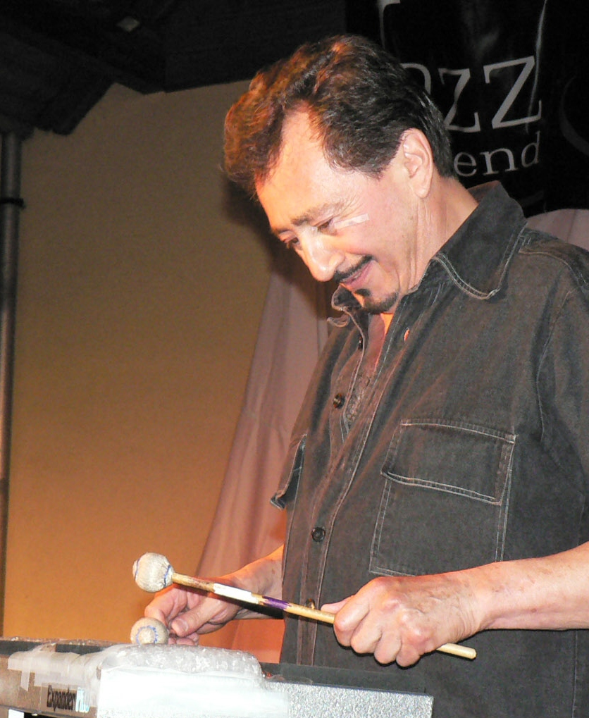 Tommy Vig